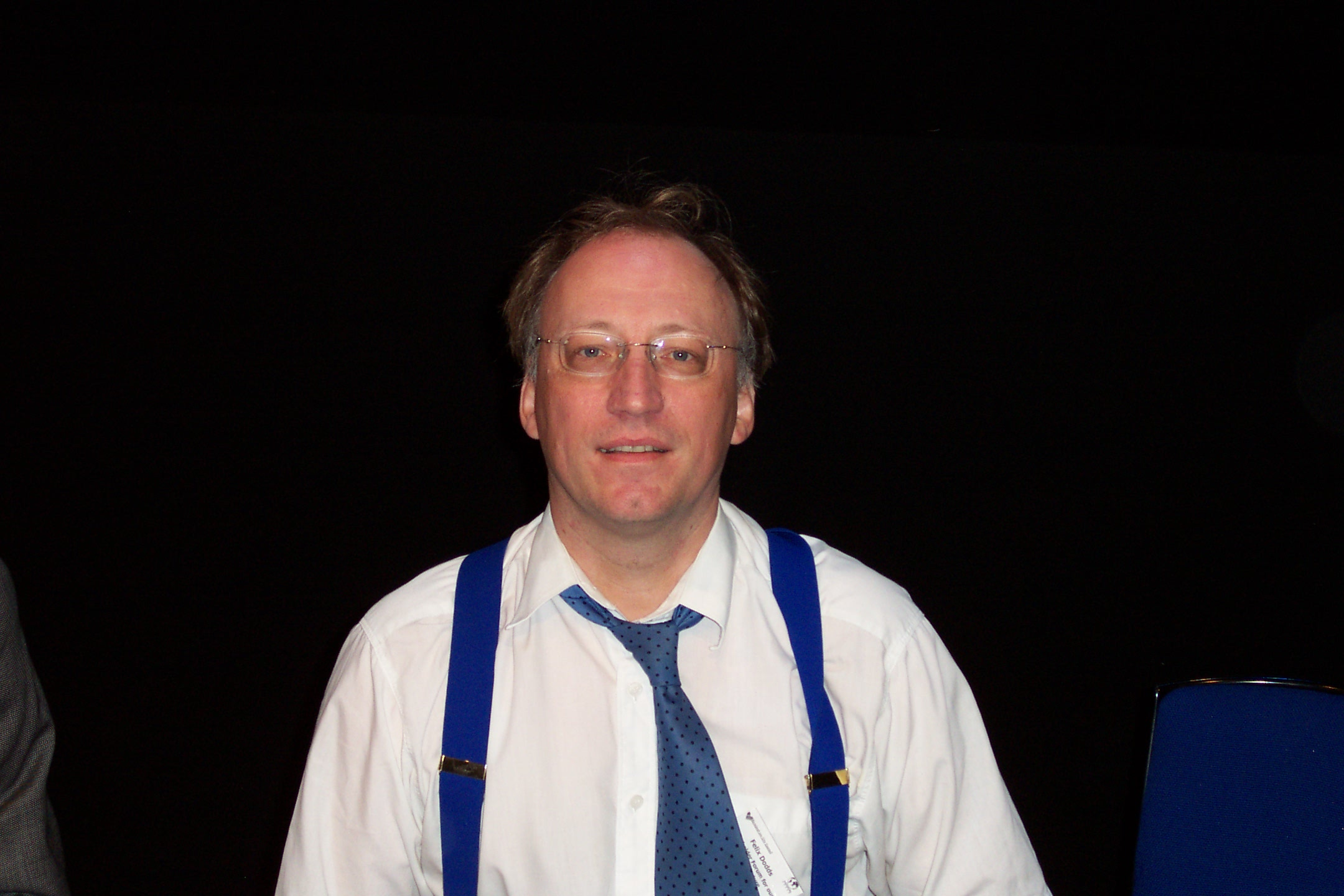 Felix Dodds, speaks at the Stakeholder Forum conference, 'Johannesburg and Back'.